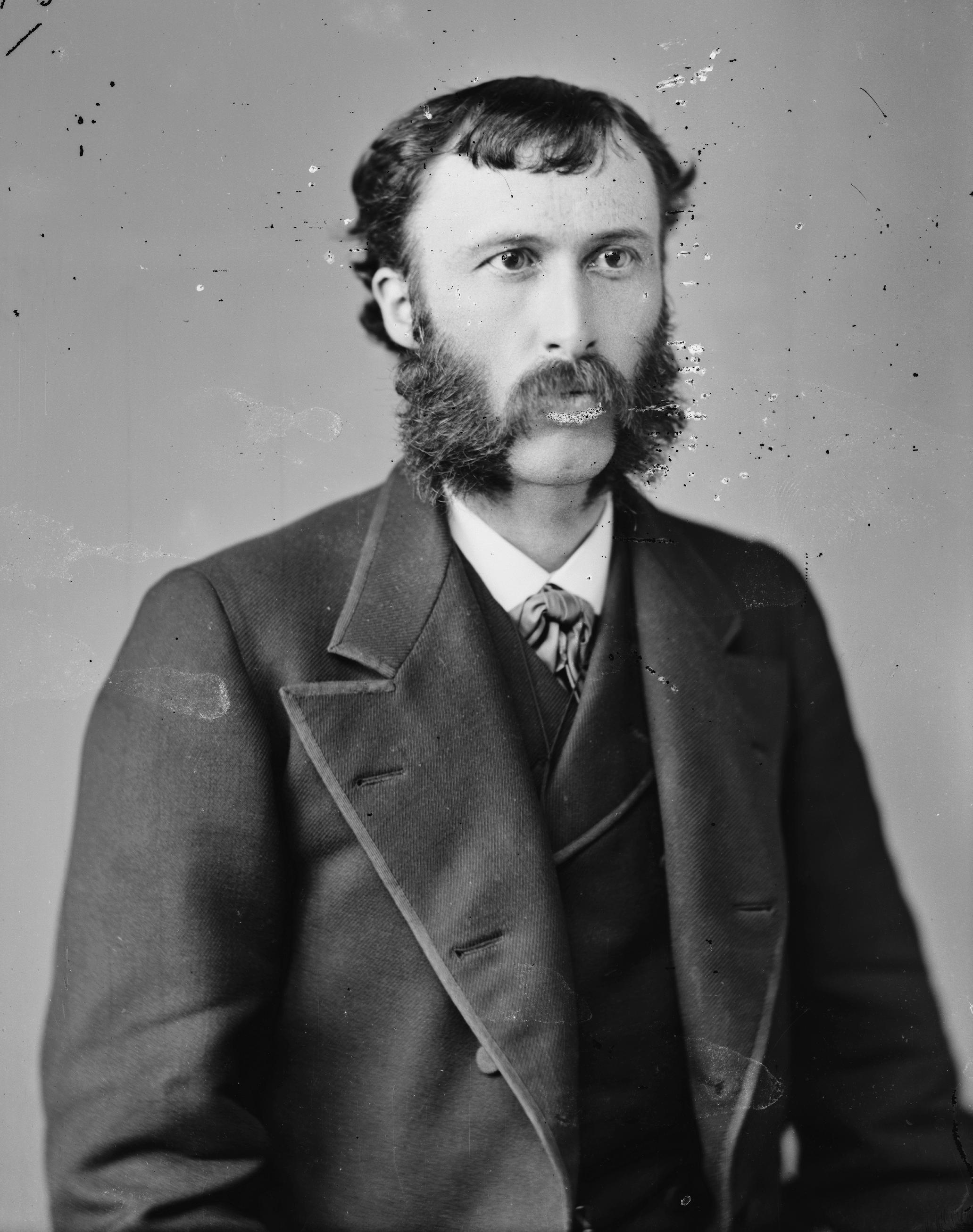 William Walter Phelps. Library of Congress description: "Phelps, Hon. Wm Walter of N.J. Rep".